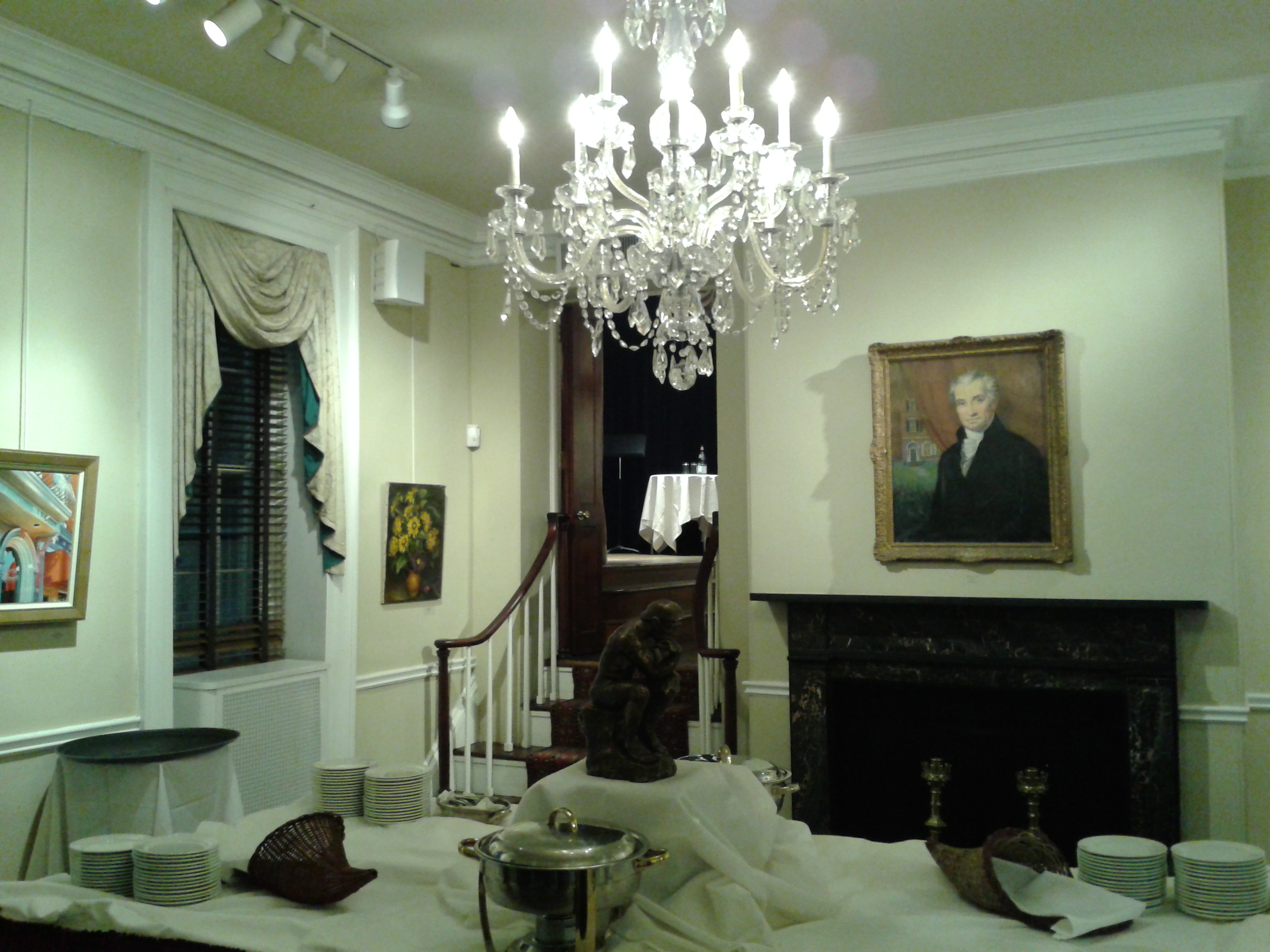 Image taken by me for Wikimedia commons